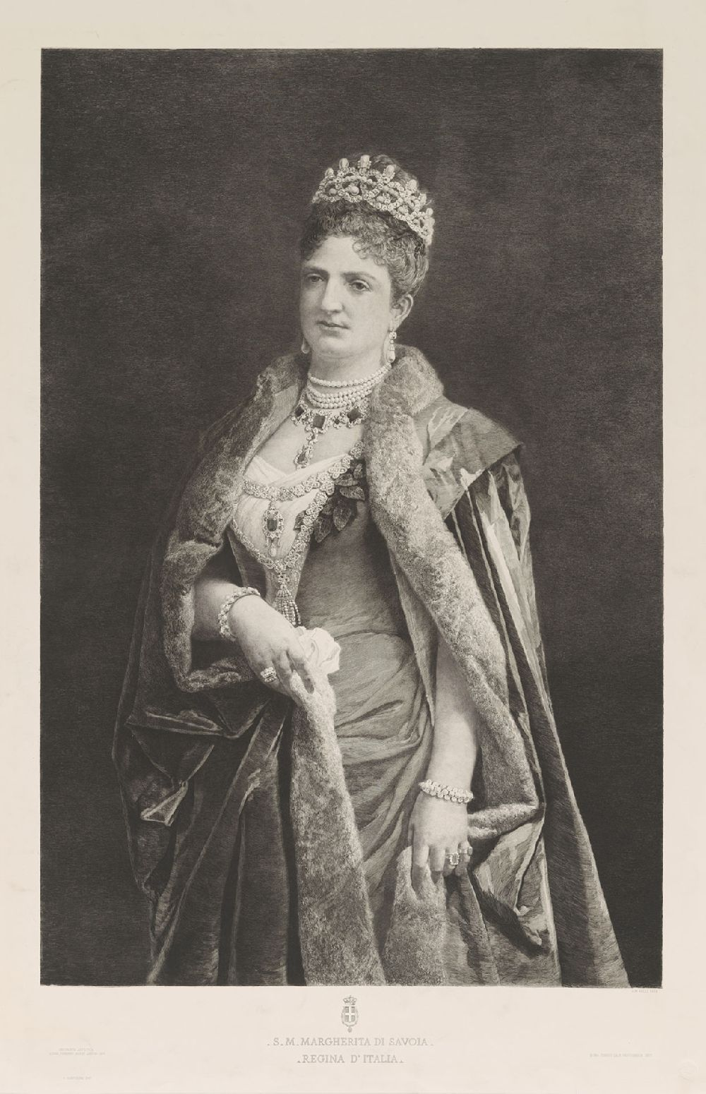 Margherita of Savoy (1851-1926) became queen of Italy when her husband, Umberto I, succeeded to the throne in 1878. The Italian public held the queen in high regard, and she became a great supporter of the arts. This particular etching by Alberto Maso Gilli was based on an anonymous photograph, likely taken in the 1880s or early 1890s when Queen Margherita was in her thirties.